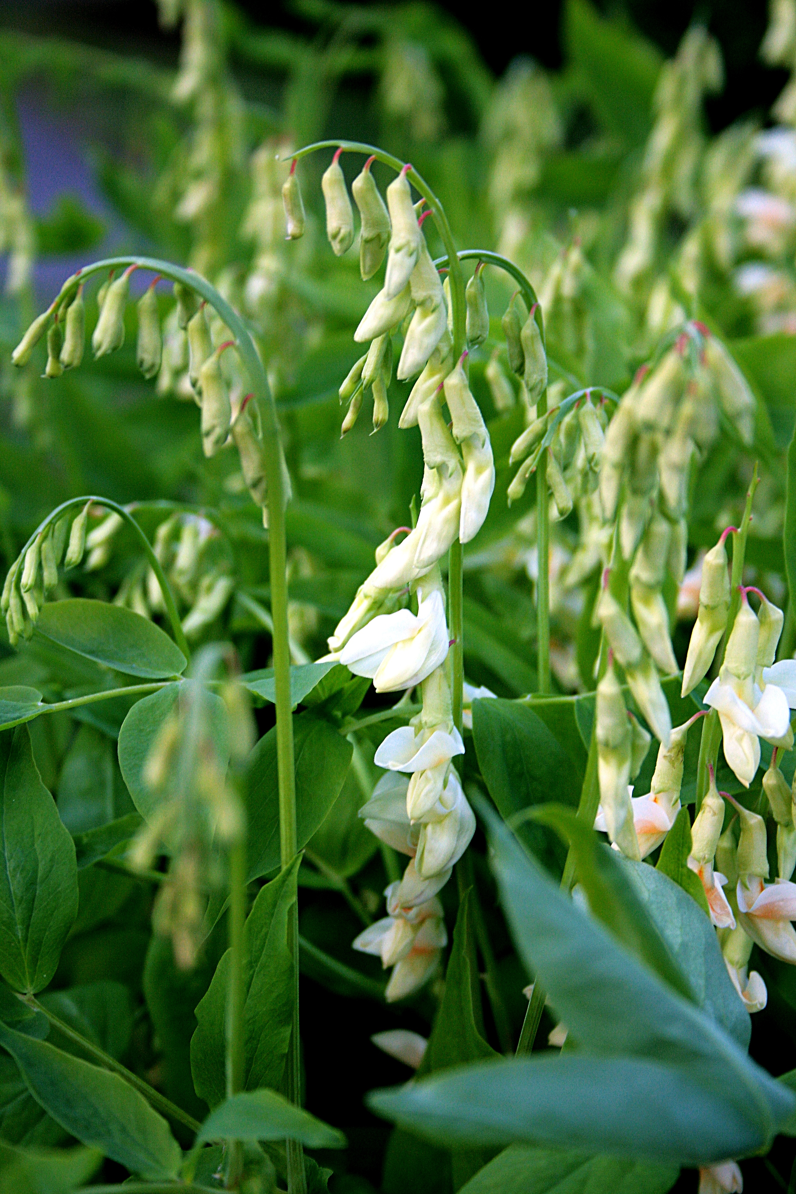 Ísland, Akureyri Botanical Gardens: Platterbse: Lathyrus_gmelinii